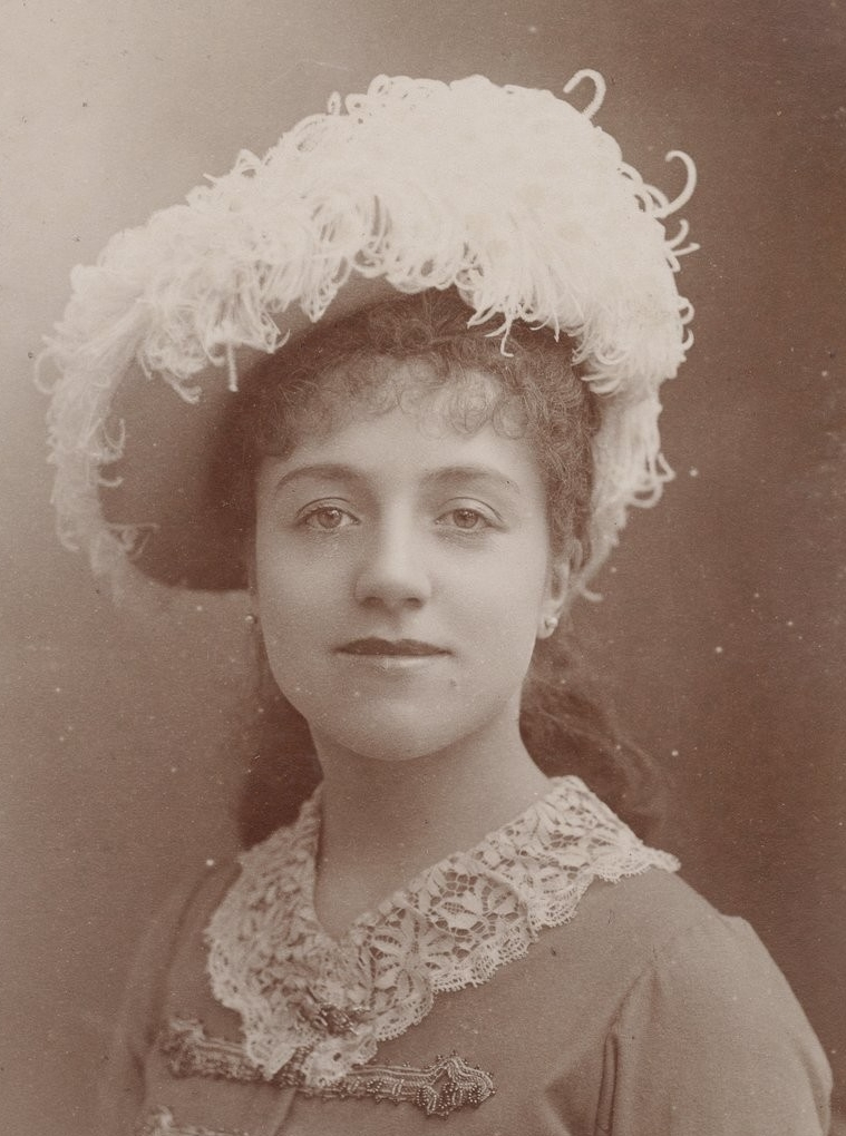 Photograph of the French soprano Jeanne Leclerc (1868-1914) in her role of Aurore de Nevers in the première of Charles Grisart's opera Le Bossu at the Théâtre de la Gaîté in 1888